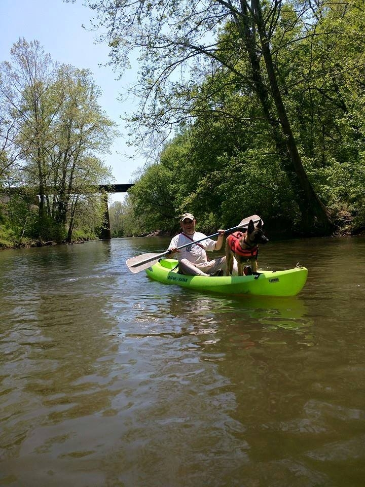 Kayaking upstream on the Rockfish river near Rockfish, Virginia. The Norfolk-Southern RR Trestle in background.